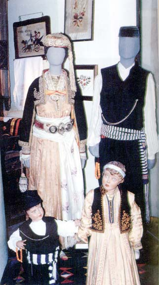 Traditional costumes, image from the Folklore Museum of the Lyceum of Hellenic Women, Naoussa, Central Macedonia, Greece